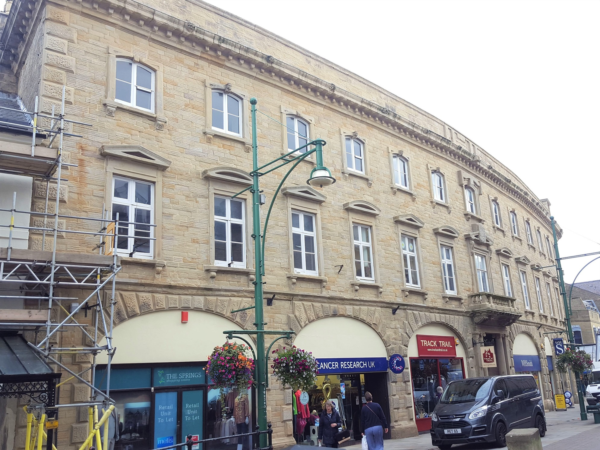 Old Royal Hotel on Spring Gardens in Buxton. Headquarters of ICI Lime Division until 1970s.